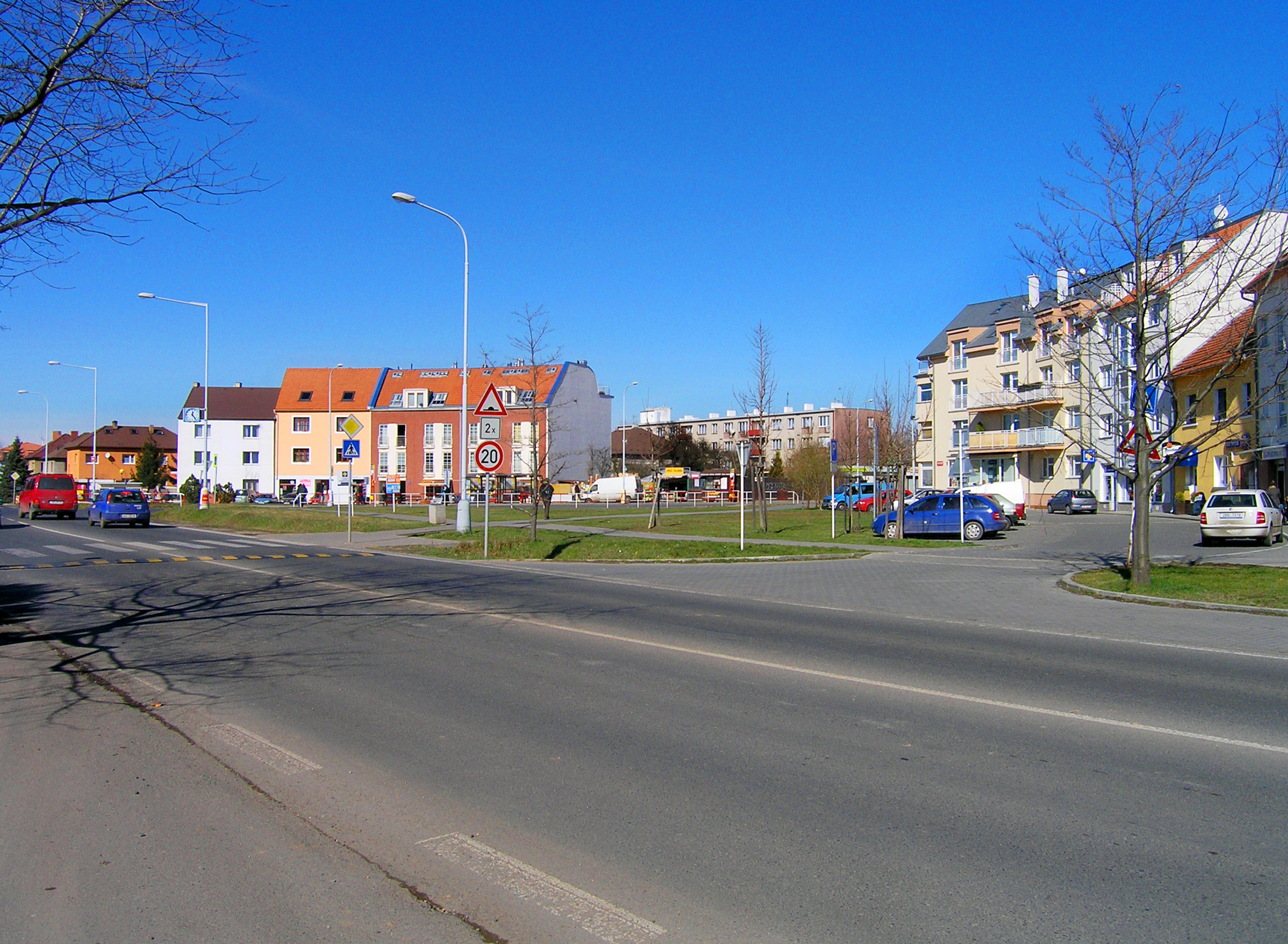 Brandejsovo square in Suchdol, Prague